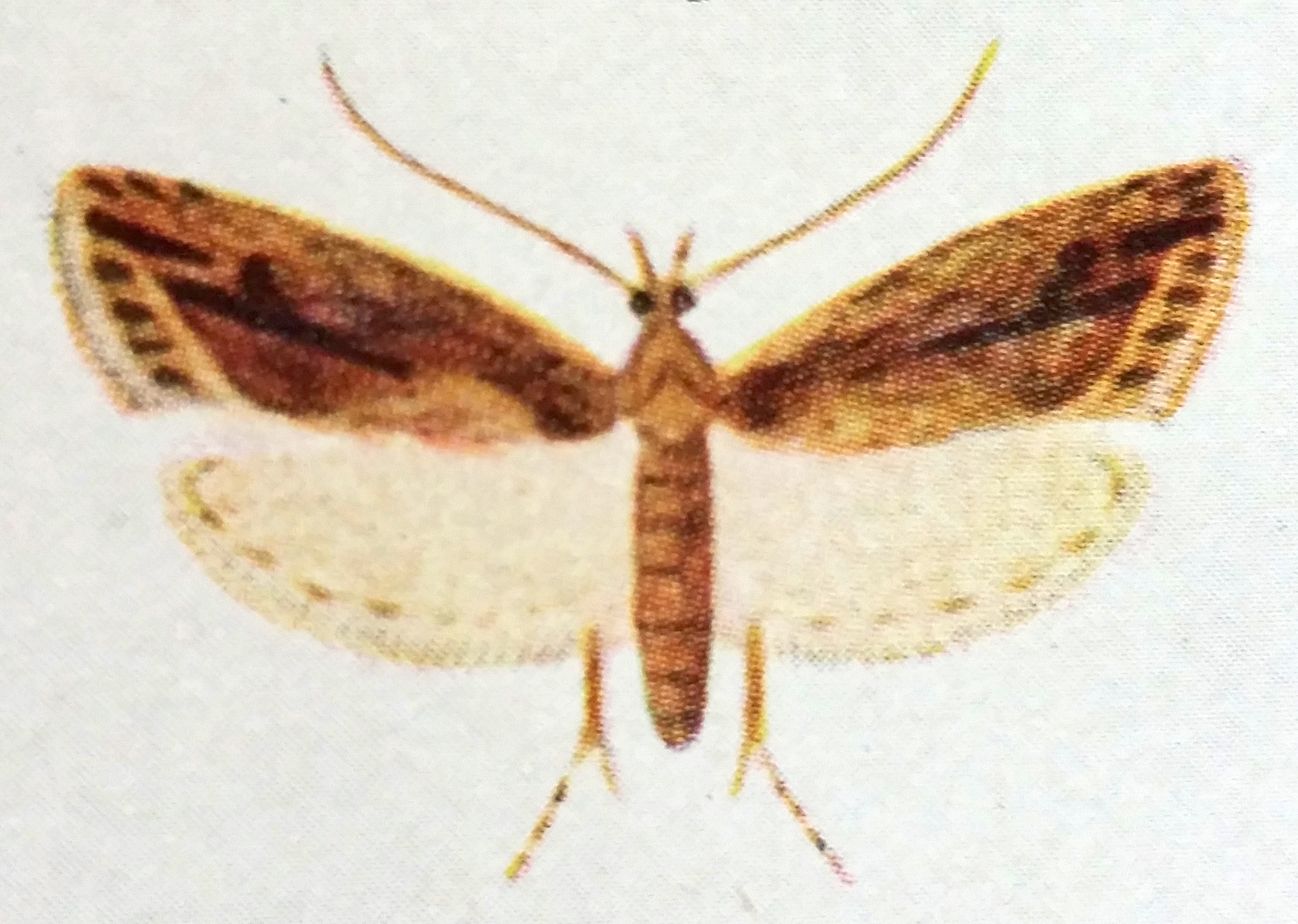 Drawing of Izatha caustopa by George Vernon Hudson from The Butterflies and Moths of New Zealand (1928)